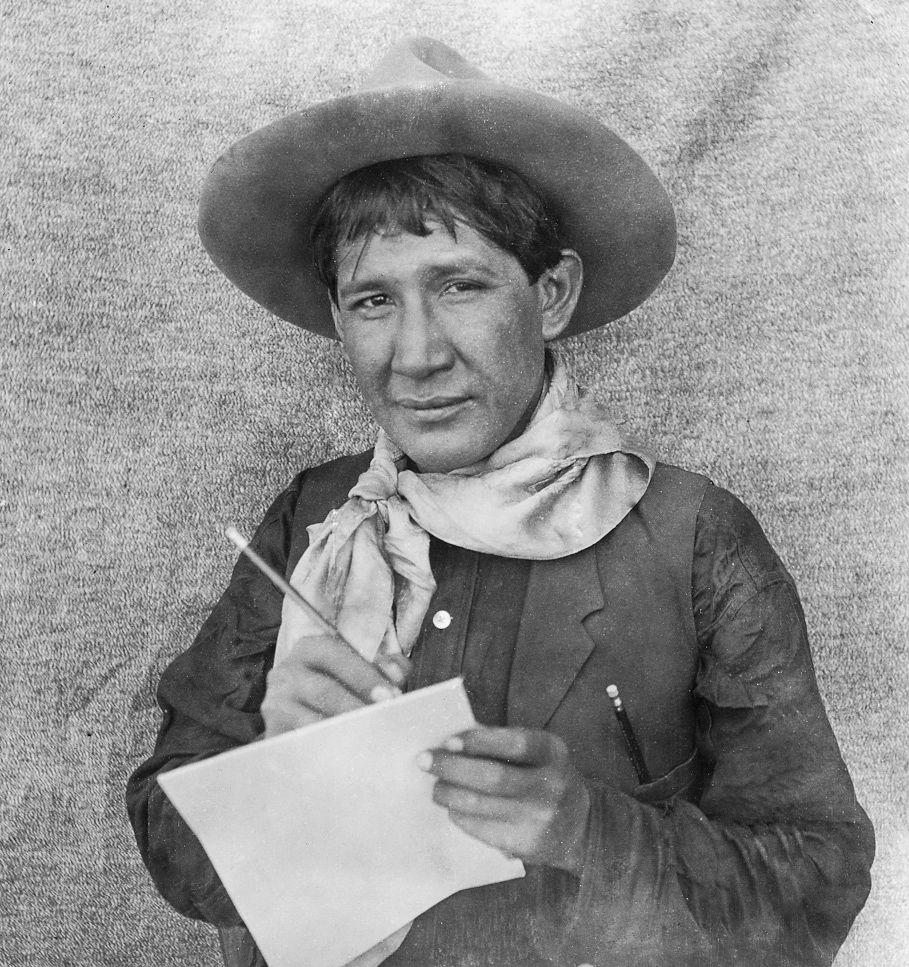 Ernest Spybuck, Absentee Shawnee Artist, ca. 1910. Photo taken during fieldwork sponsored by George Heye.